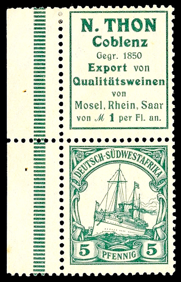 Postage stamp of German South-West Africa with advertising coupon, SMY Hohenzollern issue, 5 pfennigs, 1906